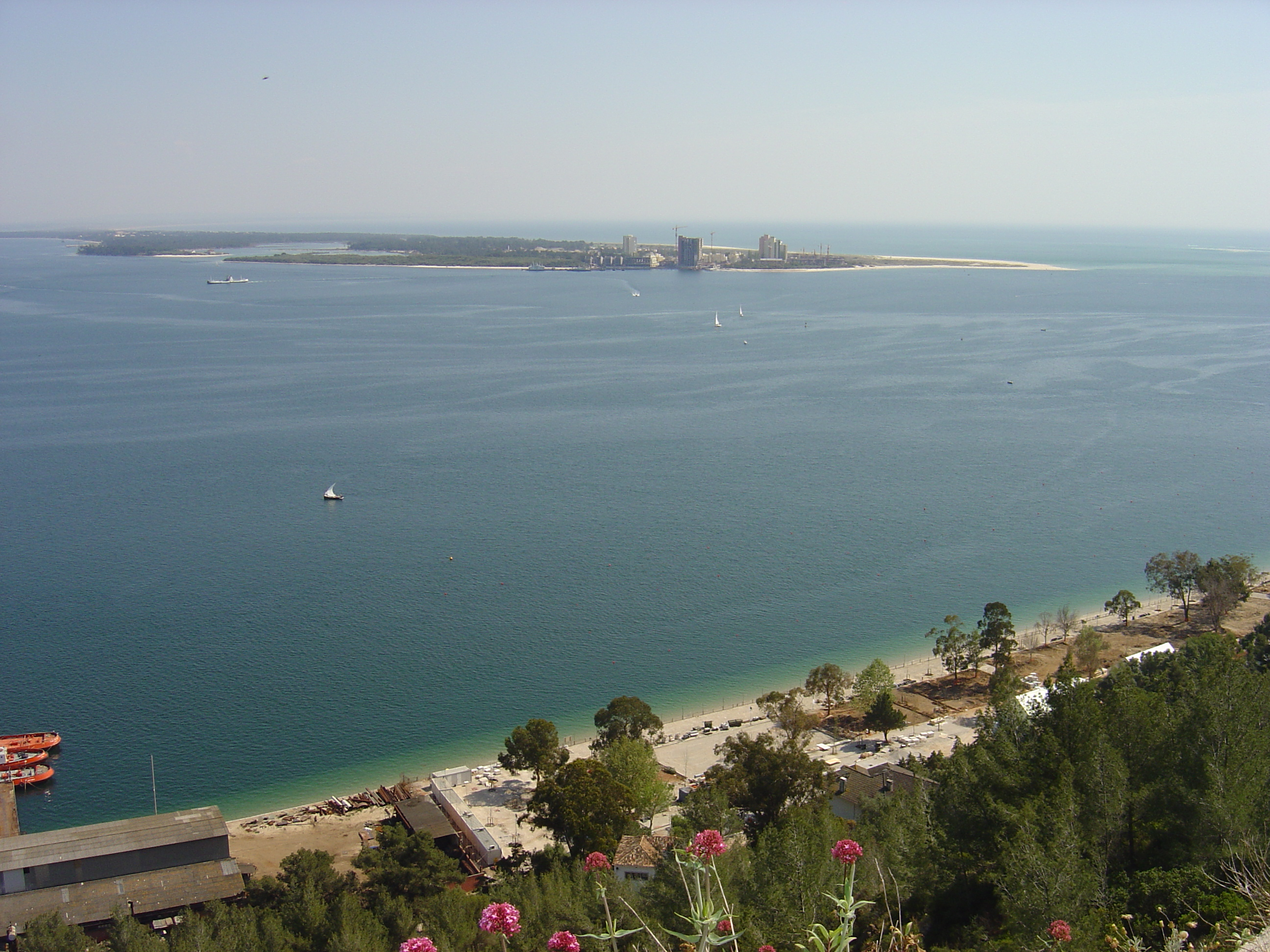 picture taken by User:Husond